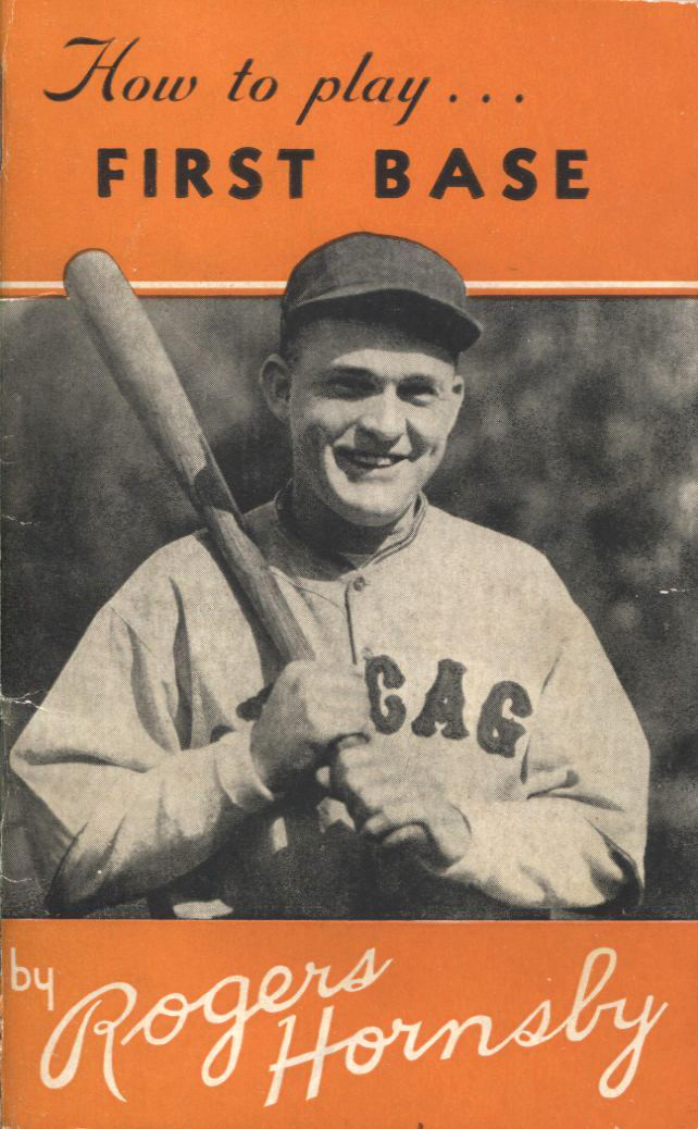 Professional baseball player Rogers Hornsby